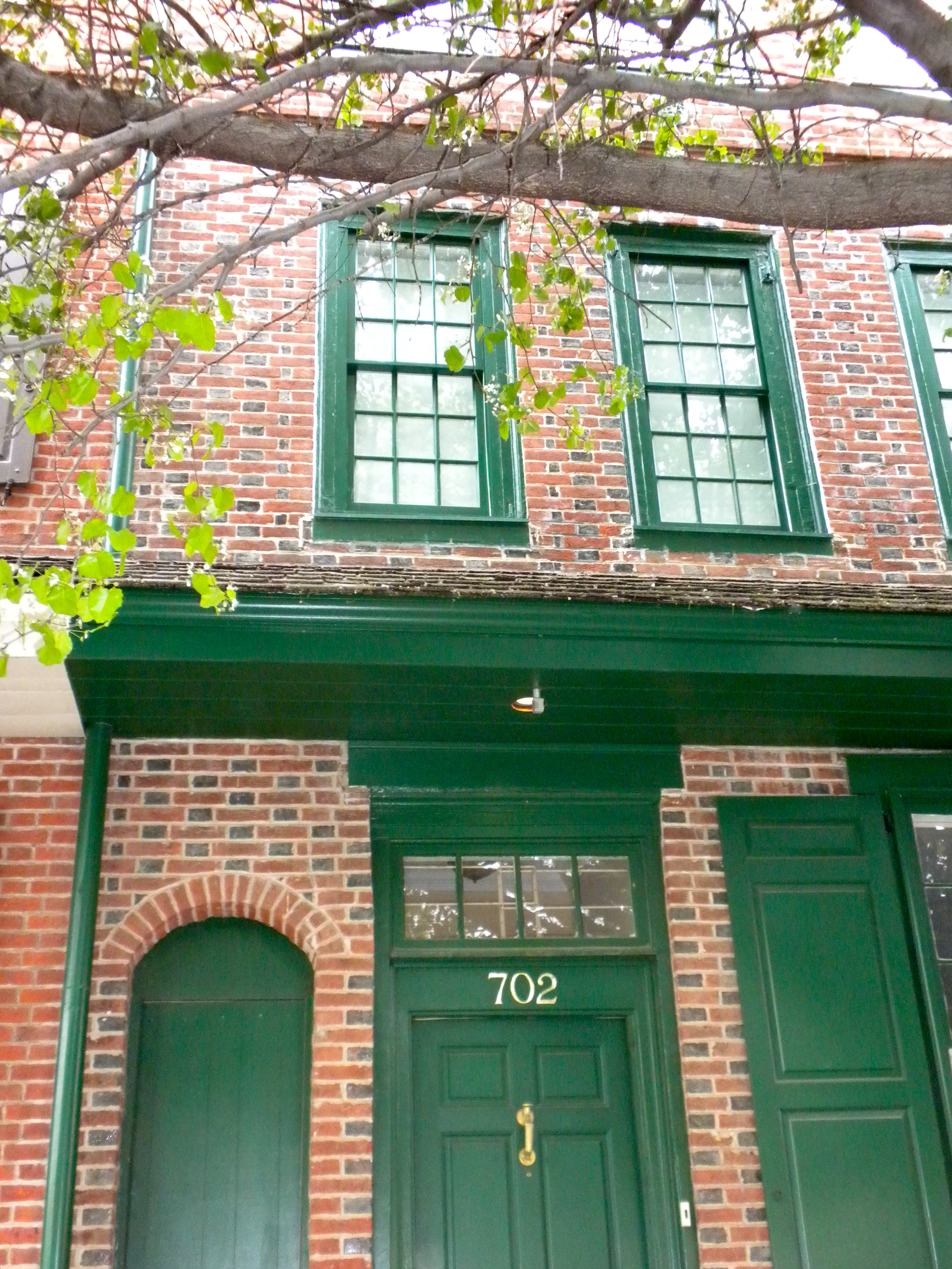 Captain thomas Moore House in Philadelphia on NRHP since March 16, 1972. At 702 South Front Street. The entire block of Front Street, which has 8 houses over about a 100 foot frontage, was built during the 1760s and is on the NRHP as a Historic District. This house is separately listed on the NRHP. 704 and 700 are also separately listed. To make things even more interesting, the entire block may also be part of the Southwark Historic District on the NRHP. Nathaniel Irish was a member of the Company of Carpenters until he died in 1769. He built the house at 704, and probably 702 as well. The area was generally known as Southwark, but the northern part of Southward is now called Queen Village. At one time 2 blocks separated Front Street from the Delaware River, but now there is only a small park, which offers a good view of the battleship (New Jersey?) on the other side of the river. Photography of this block of Front Street is hampered by the big trees which cover the small houses - somebody should come back in the wintertime to rephotograph!